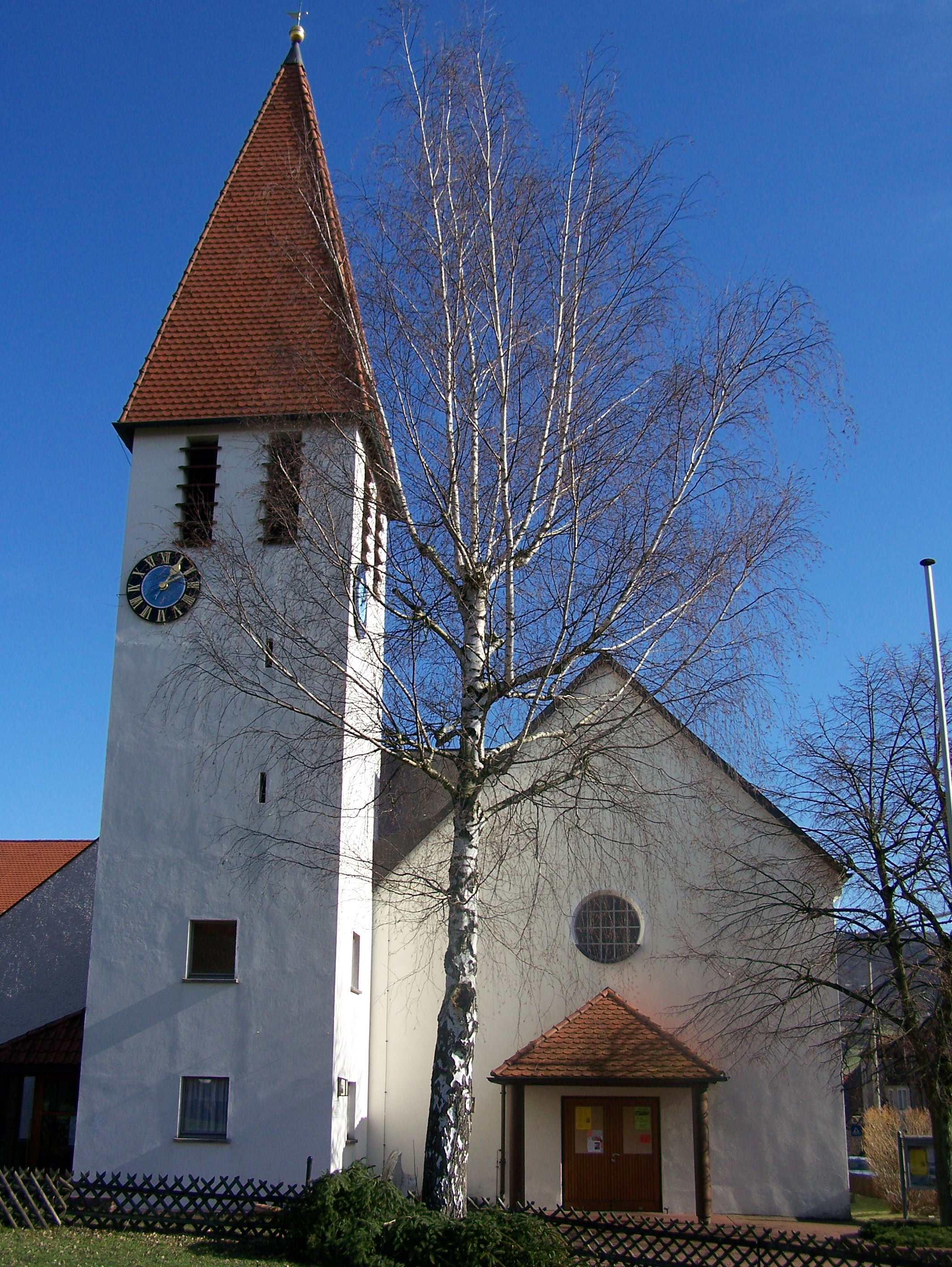 Building of Christuskirche Schnaittach, Germany.